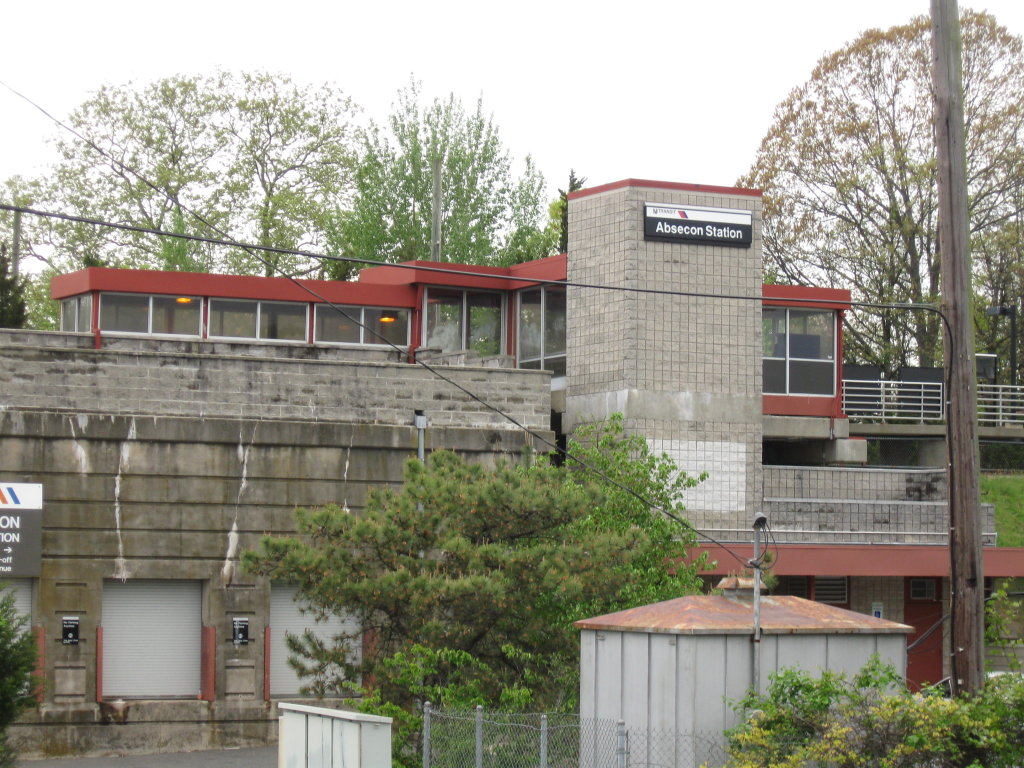 Absecon Station, exterior, looking south from the White Horse Pike.